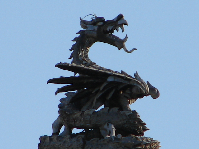 Dragon Perched atop Cardiff City Hall in pride of place!